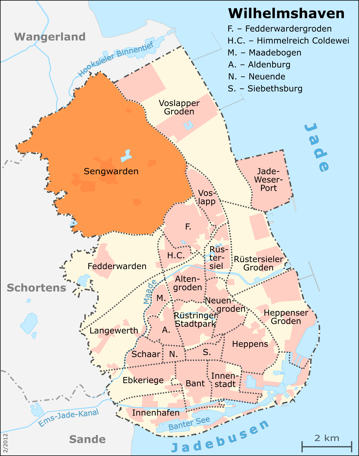 Map of Wilhelmshaven's city districts: Sengwarden